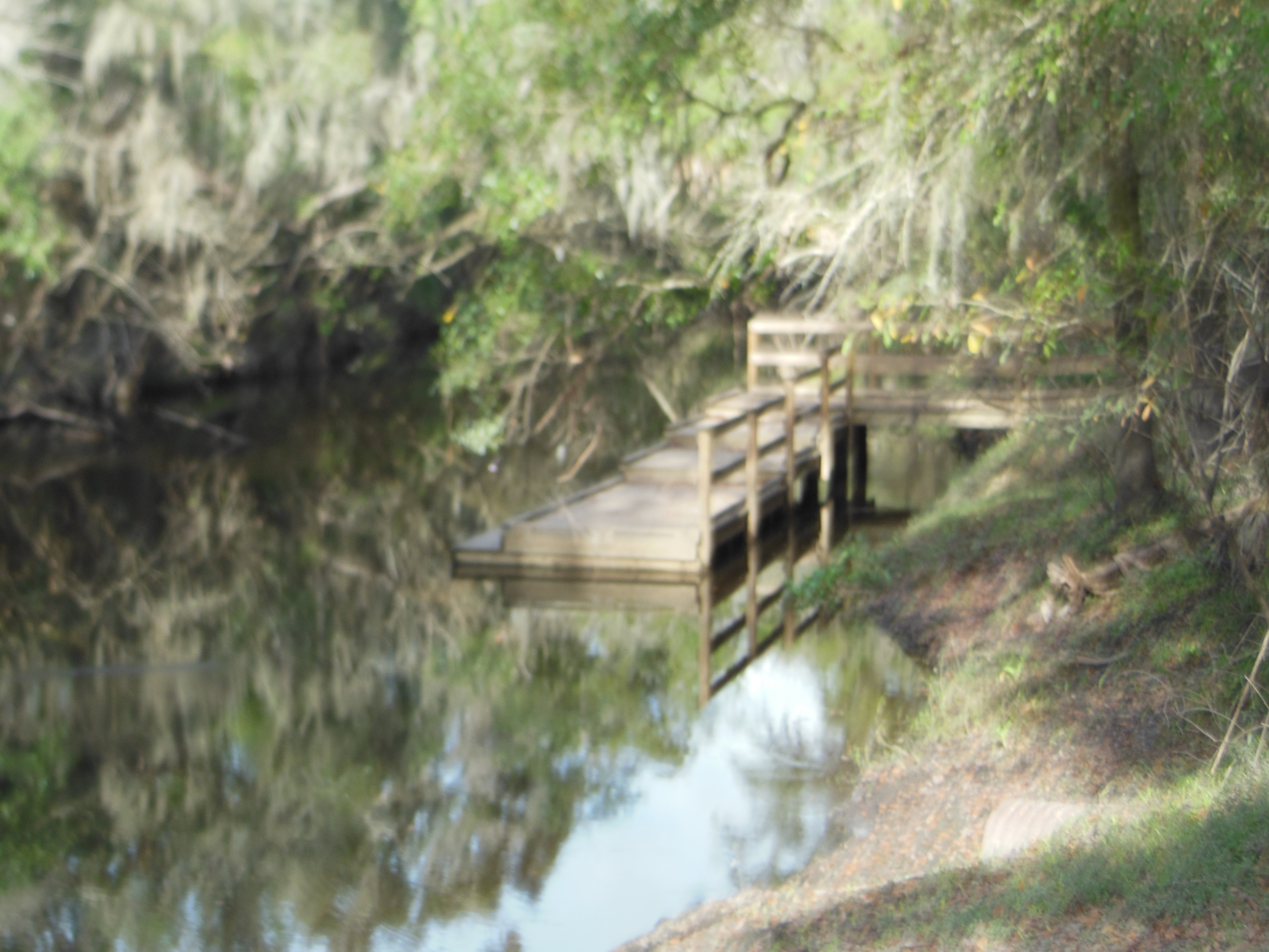 Lithia Springs, Florida canoe launch area January 4, 2015